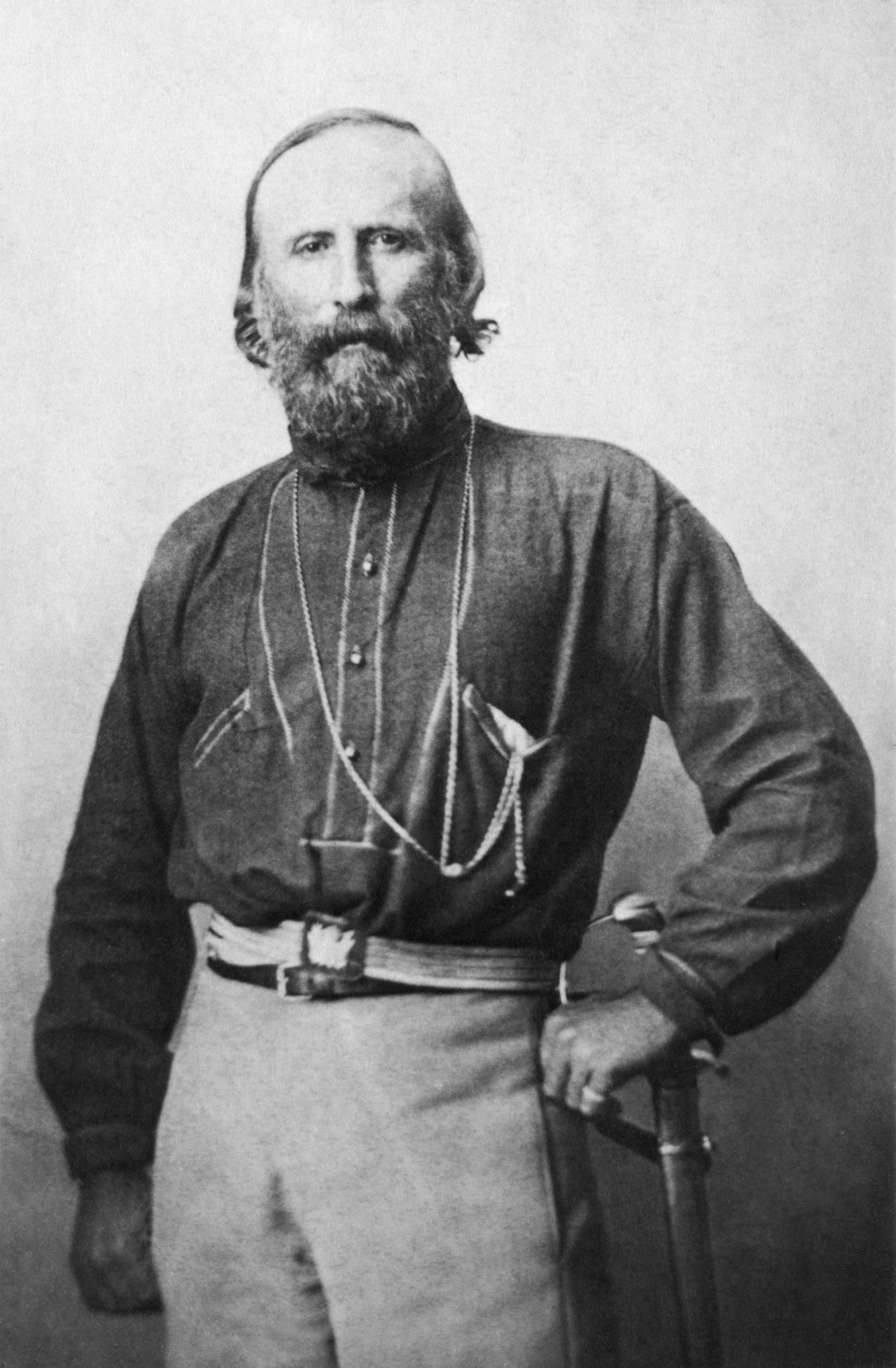 "arribaldi [i.e., Garibaldi] taken in Naples, Italy" "Giuseppe Girabaldi, half-length portrait, standing, facing front." "1 photographic print on carte de visite mount : albumen."